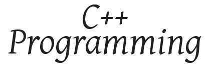 "C++ Programming graphic; made with Gimp"